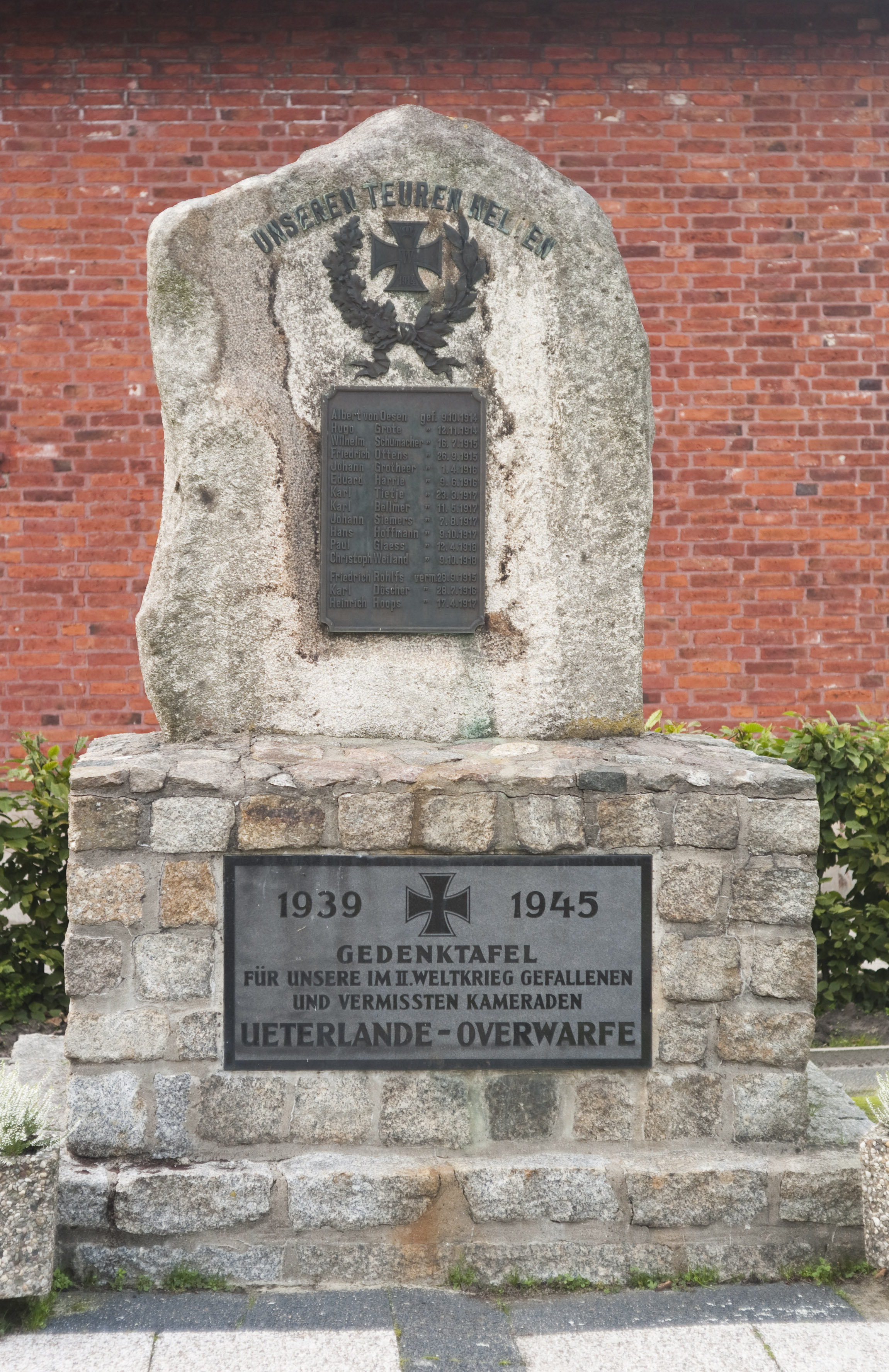 War memorial in Ueterlande, SE of Bremerhaven, Northern Germany